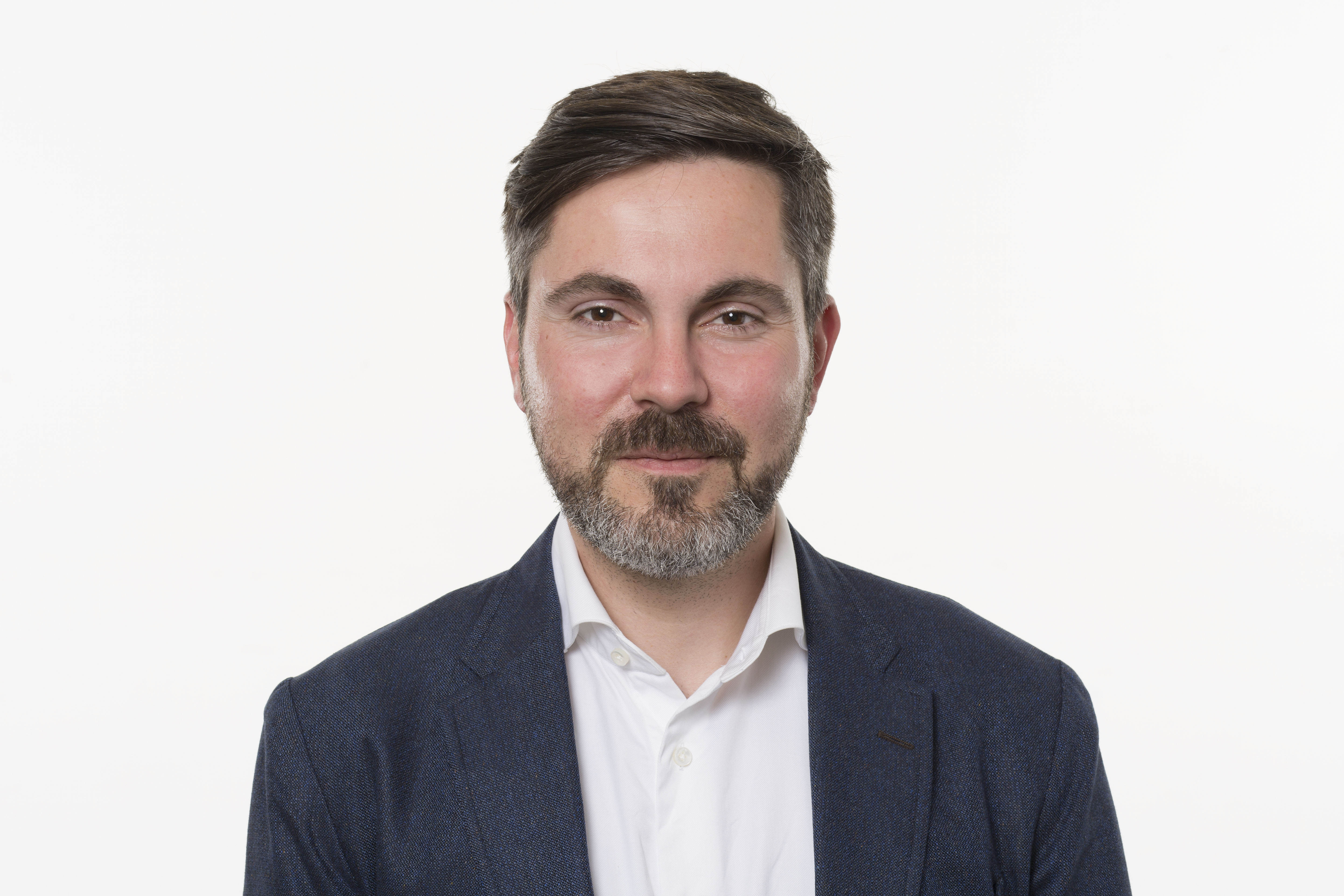 Fabio De Masi